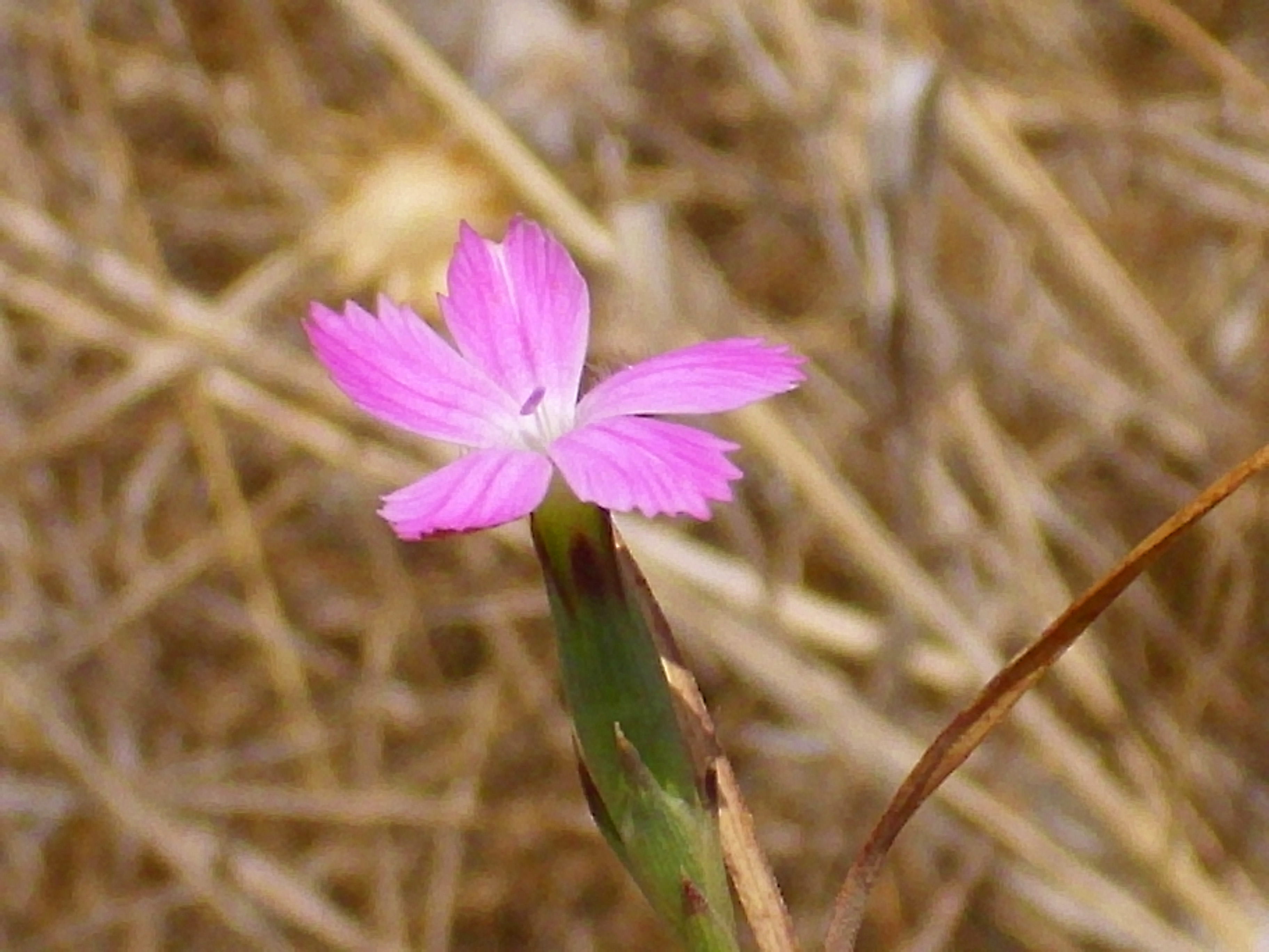 Dianthus pungens Flower Closeup , in Sierra Madrona, Spain